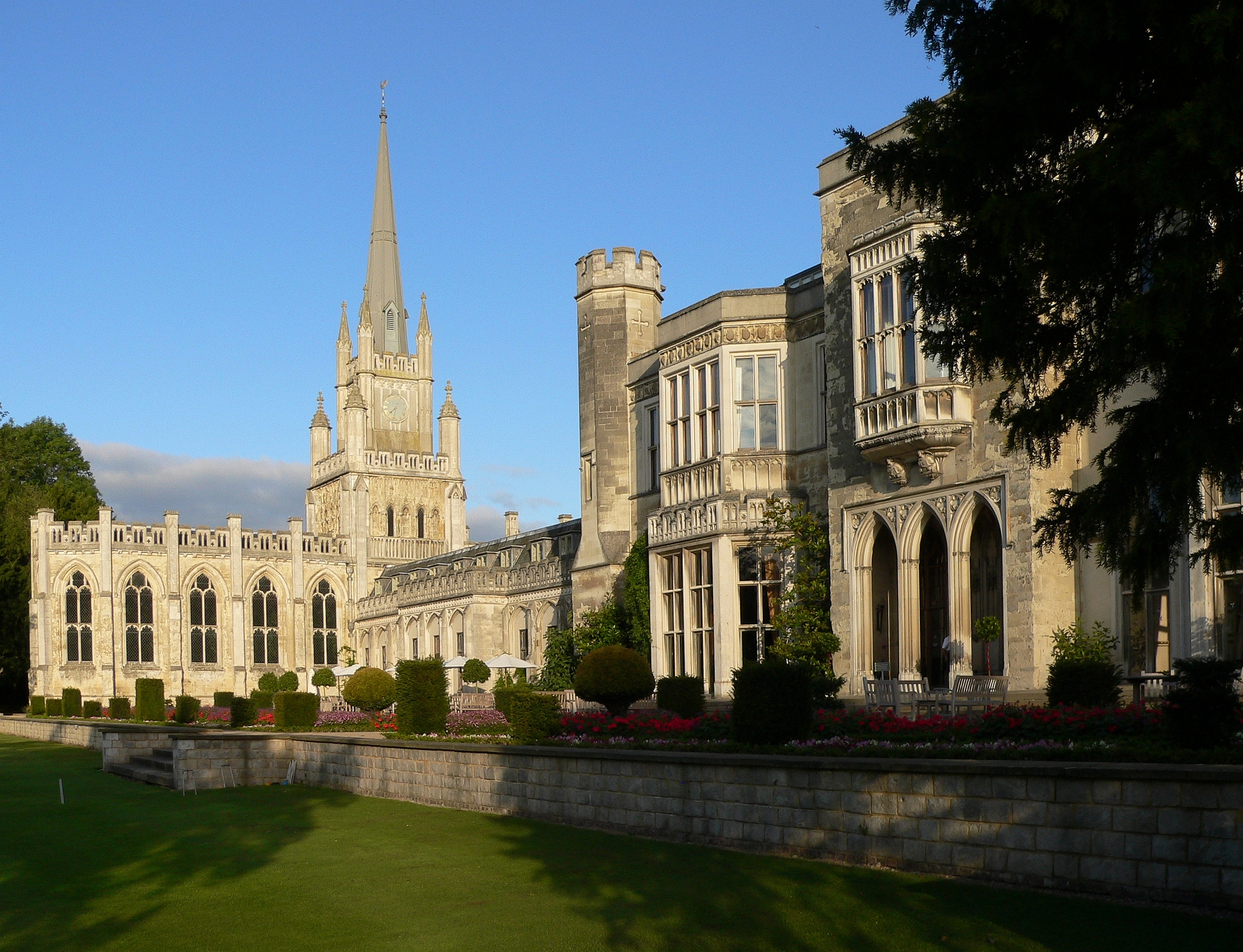 Ashridge Business School